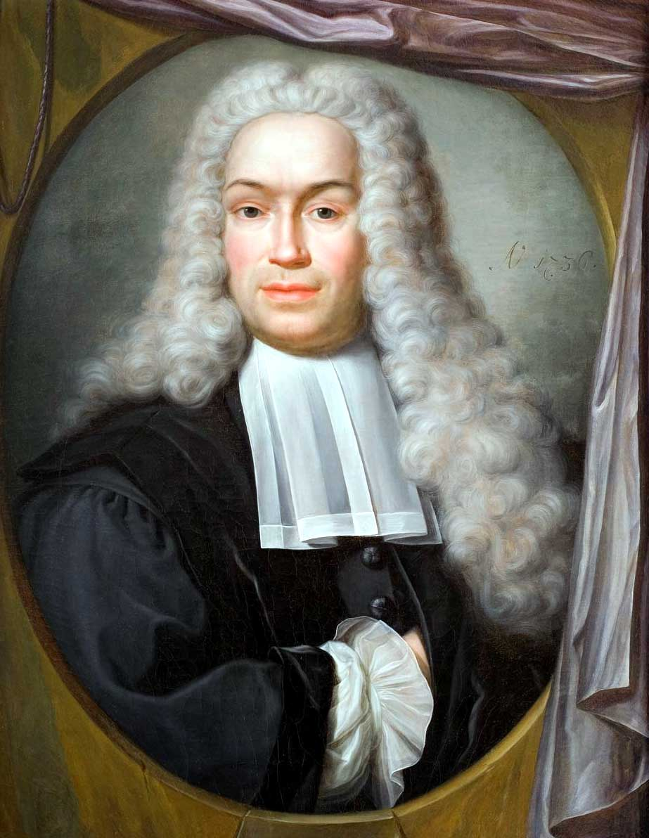 Johann Conrad Rücker (1691–1778) German Jurist